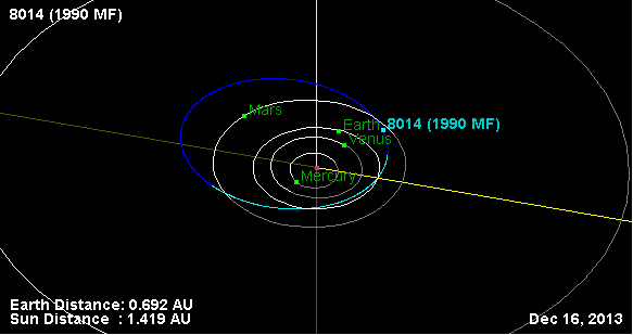 This diagram illustrates the orbit of the Potentially Hazardous Object (8014) 1990 MF.